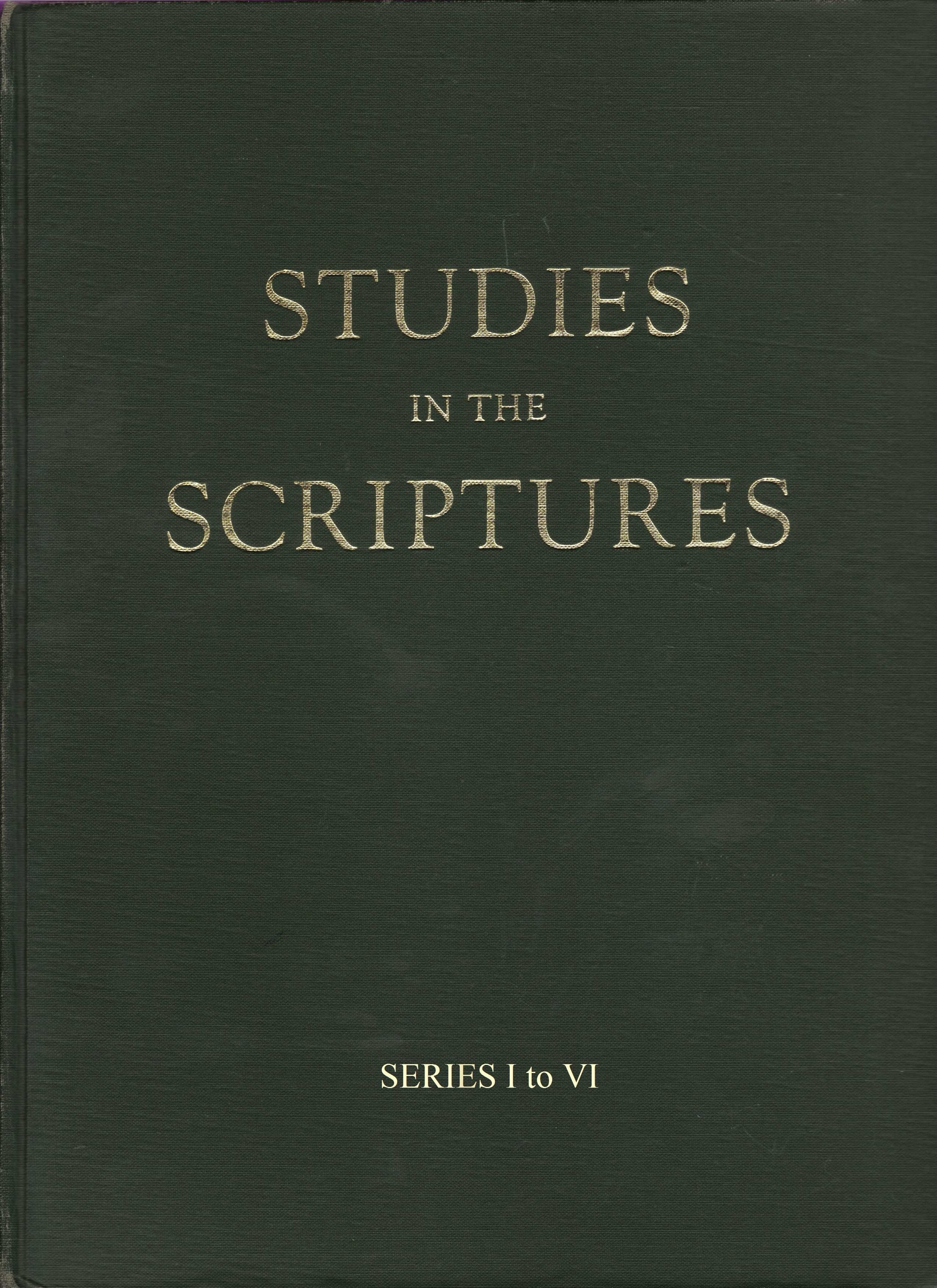 Book. "Studie in the Scripures, Serie 1 to 6", (public domain).